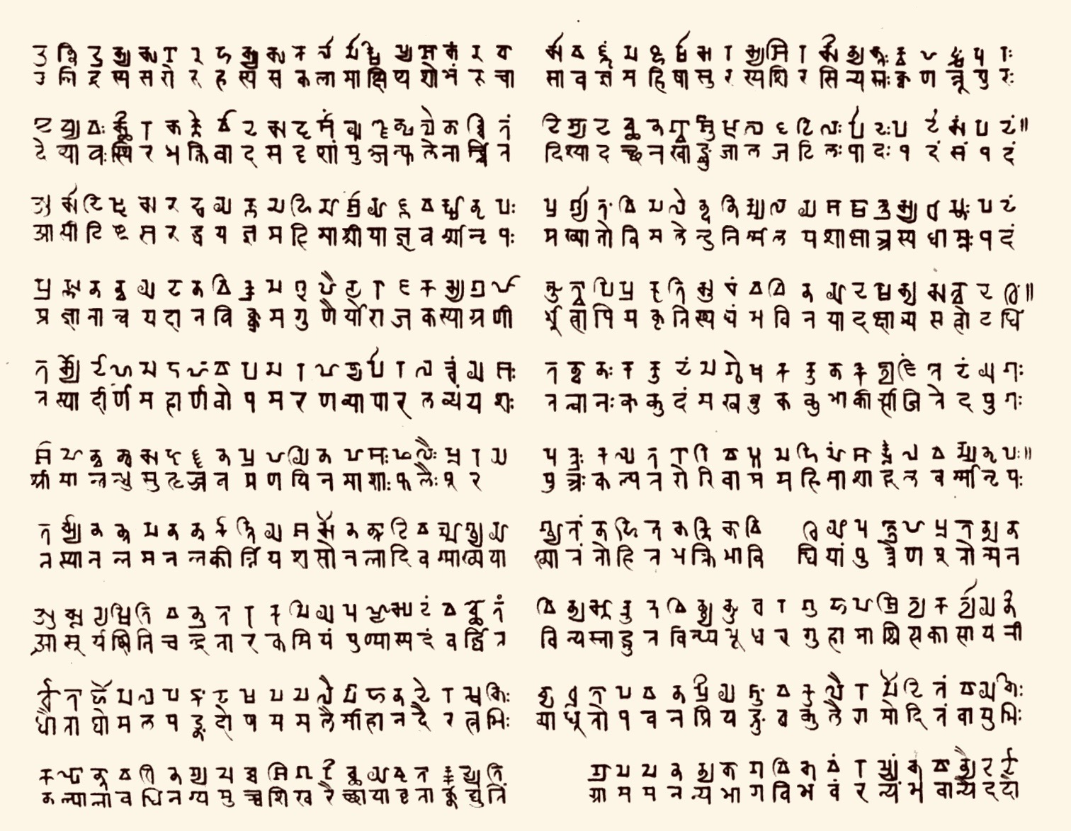 Gopika, Vadathika and Vapiyaka are three caves in Nagarjuni Hill east of the four caves in Barabar Hill. These are dated to the 3rd century BCE. Inscriptions from Mauryan era suggest these were for the Ajivikas tradition. They became extinct and abandoned it. Later Buddhists used it and added inscriptions. In 5th to 6th century Hindus started using it and added their own inscriptions. This inscription above the Gopika cave entrance is in Sanskrit, Gupta script (Devanagiri parent). It is dedicated to Durga of the Shaktism tradition of Hinduism. It was brought to the attention of scholars by John Herbert Harington in 1788. The inscription, dated to the 5th or 6th century, is notable for using matras or horizontal bars above each letter. This is a photograph of a personal copy of John Harington's 1788 publication in Asiatic Researches, pages 276-283. It was titled, A Description of a Cave near Gya. The publication date of this hand sketch and eye-copy drawing of the inscription in the 18th-century makes the work qualify for the PD-Art-100-70 guidelines. Any rights I have, I herewith donate to wikimedia under Creative Commons 4.0 license. PS: the document above was actually made by Charles Wilkins, who used a rubbing and interlined it with modern Devanagari, and relates how he deciphered the inscription [1]